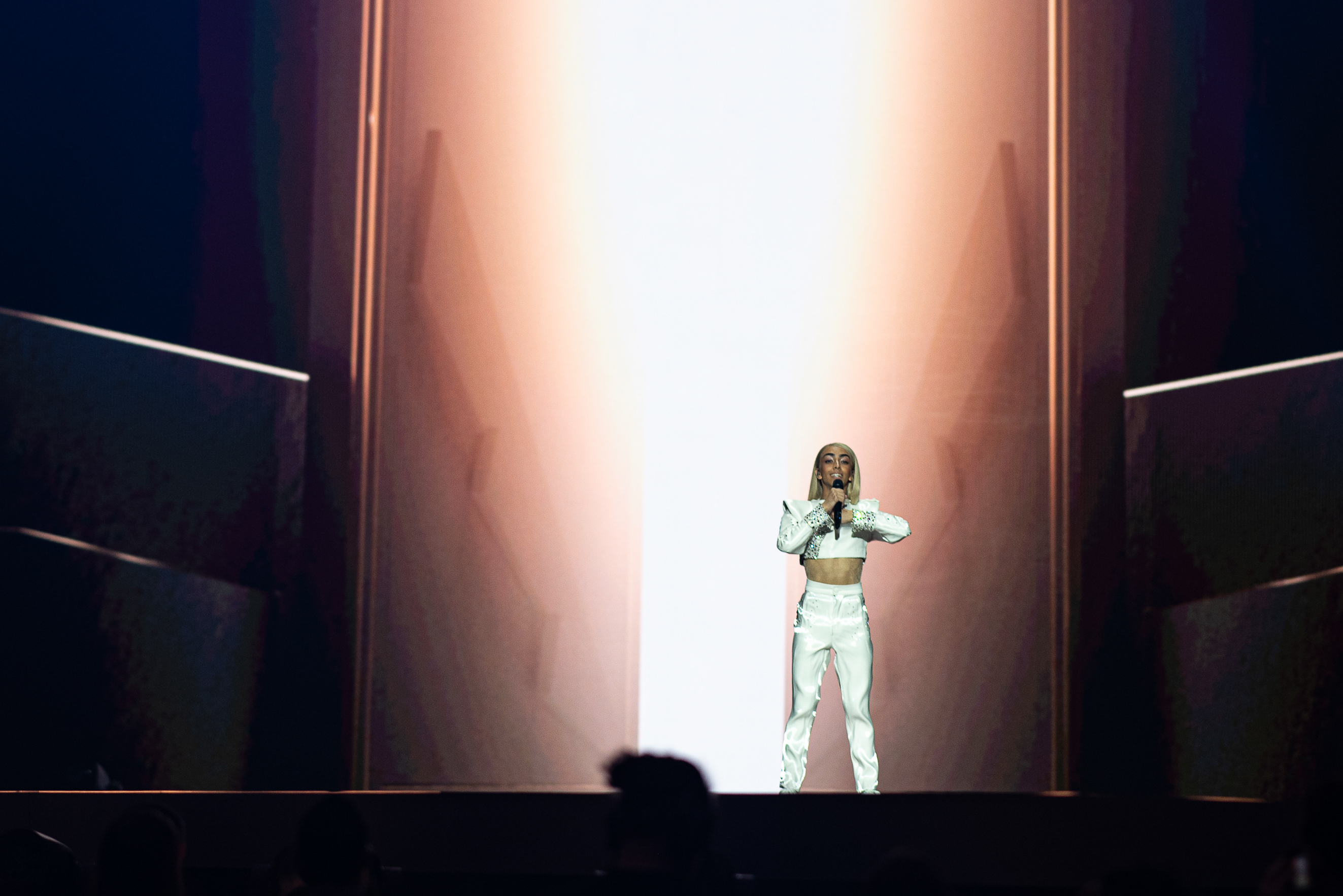 Bilal Hassani representing France with the song "Roi" during a rehearsal before the grand final of the Eurovision Song Contest 2019 in Tel-Aviv.